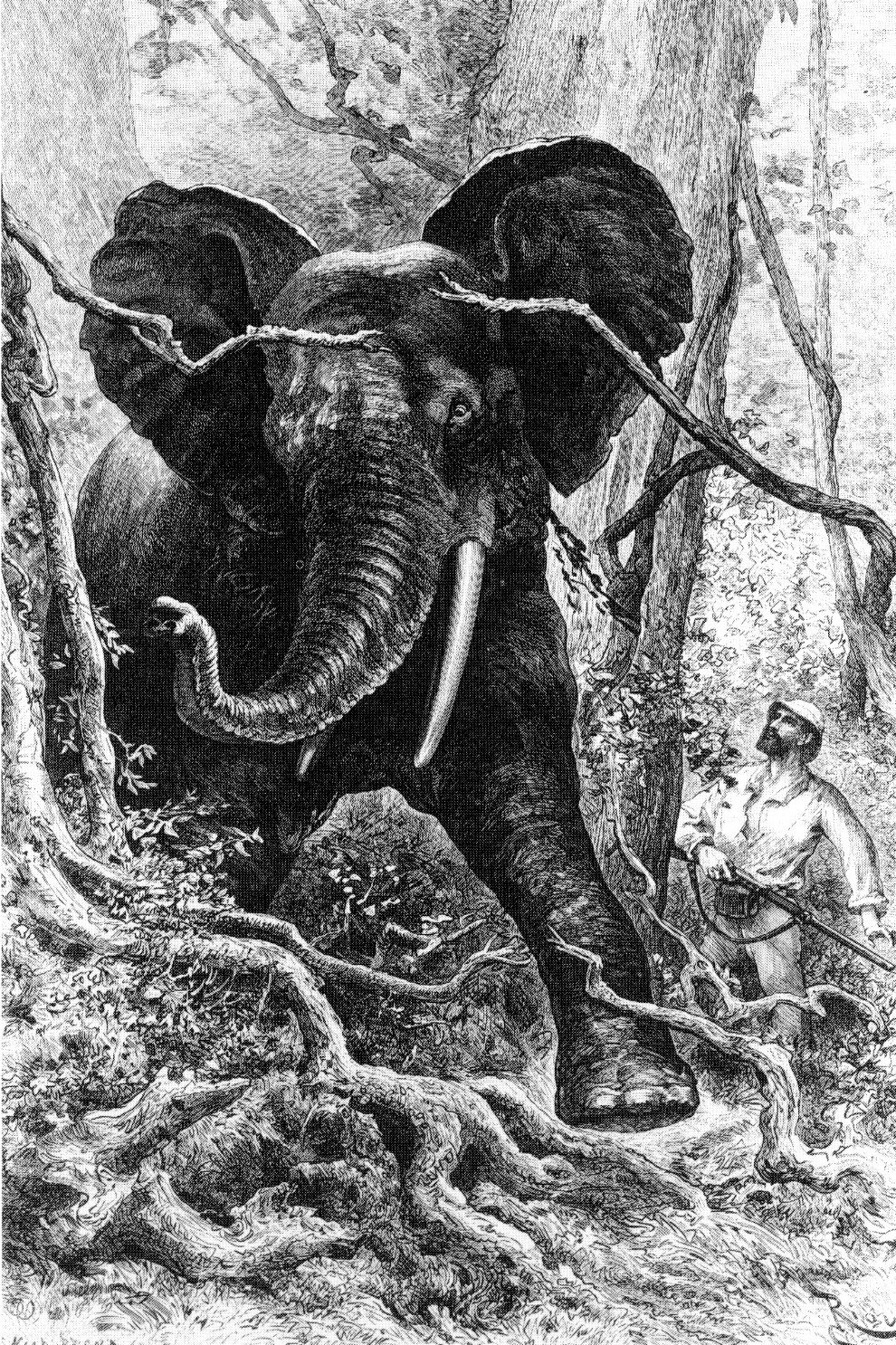 The explorer Pietro Savorgnan di Brazza hunting an elephant somewhere in Africa.